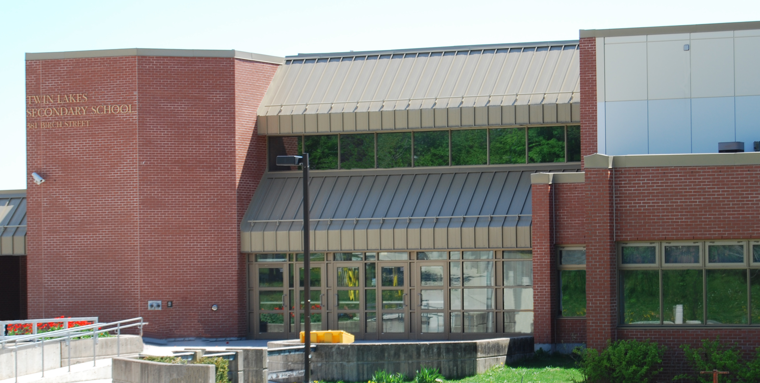 The front of Twin Lakes Secondary School.